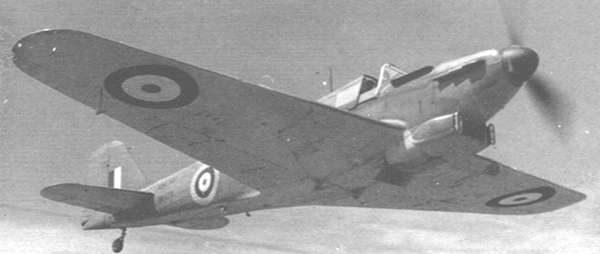 Fairey Fulmar Mk. II carrier-borne fighter and recce seen from the underside (1942)